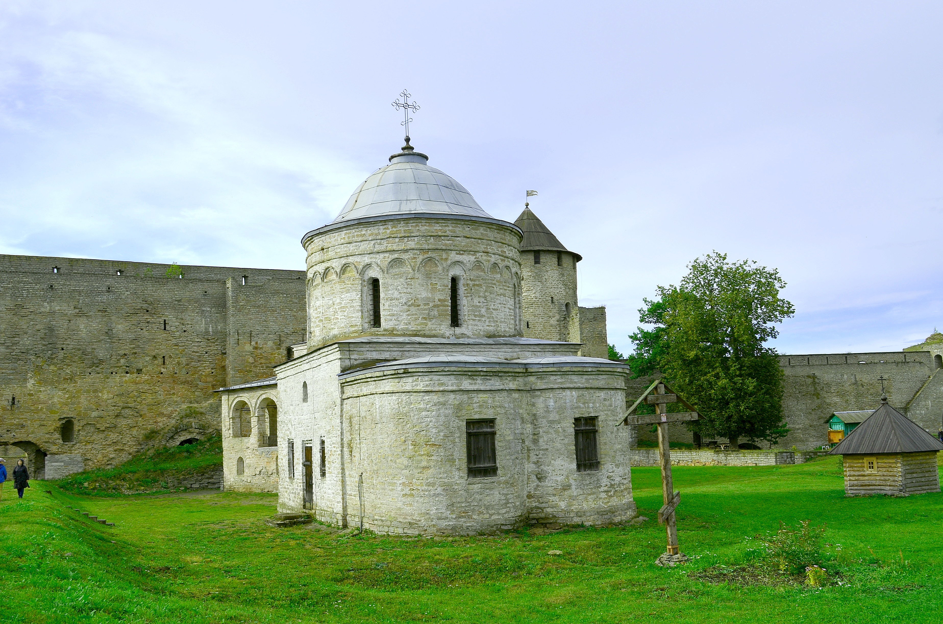 Church of Nikolskaya. The Maiden Mountain, Ivangorod, Kingisepp region, Leningradskaya Oblast